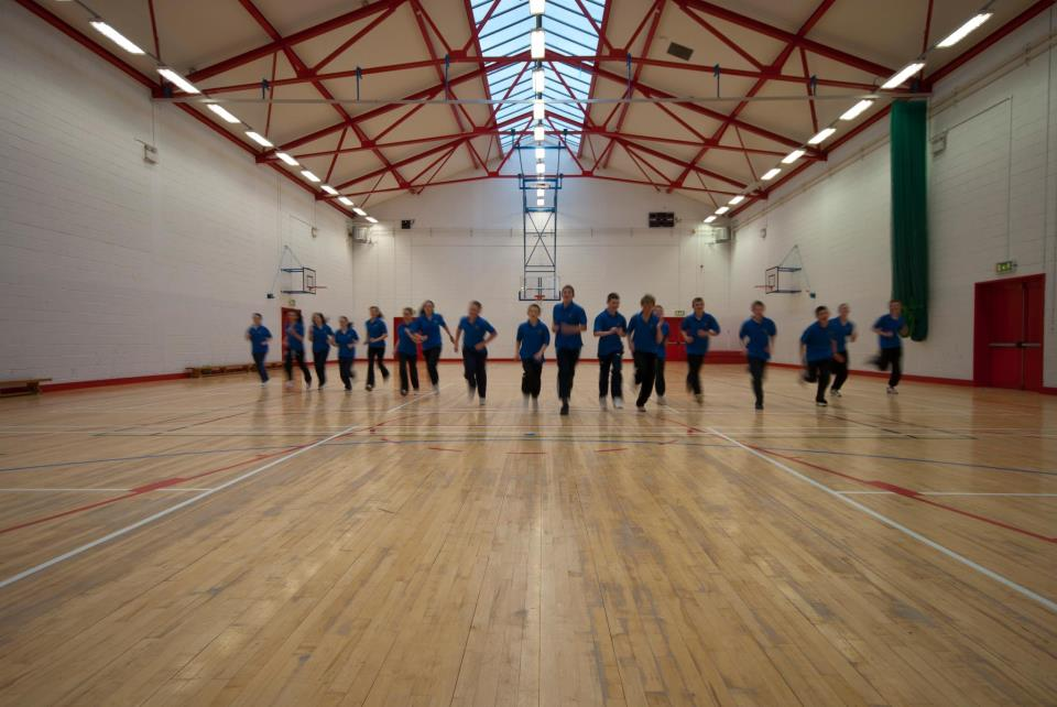 Full size sports hall at Coachford College